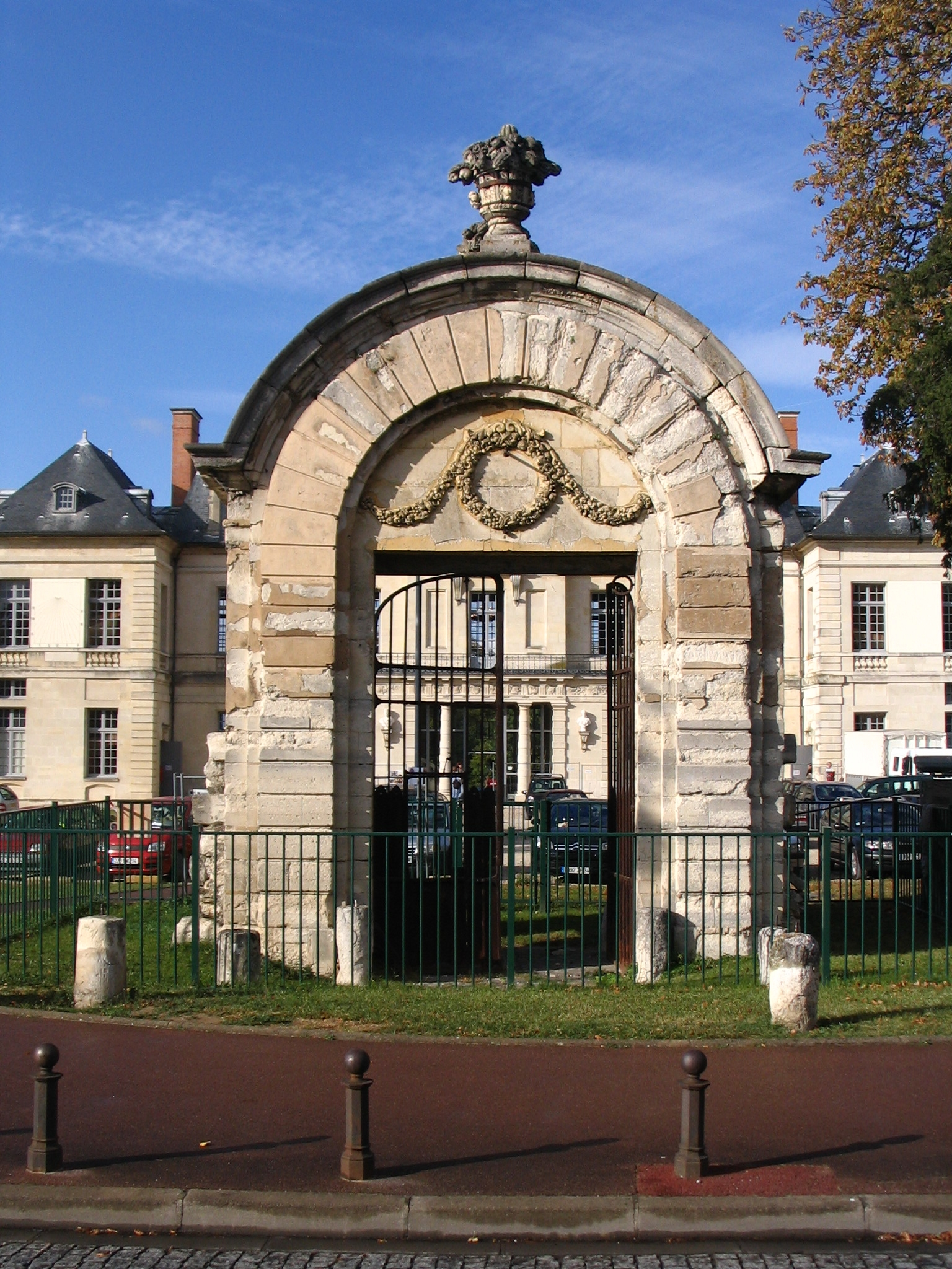 The Castle of Sucy, in Sucy-en-Brie, Val-de-Marne, France.